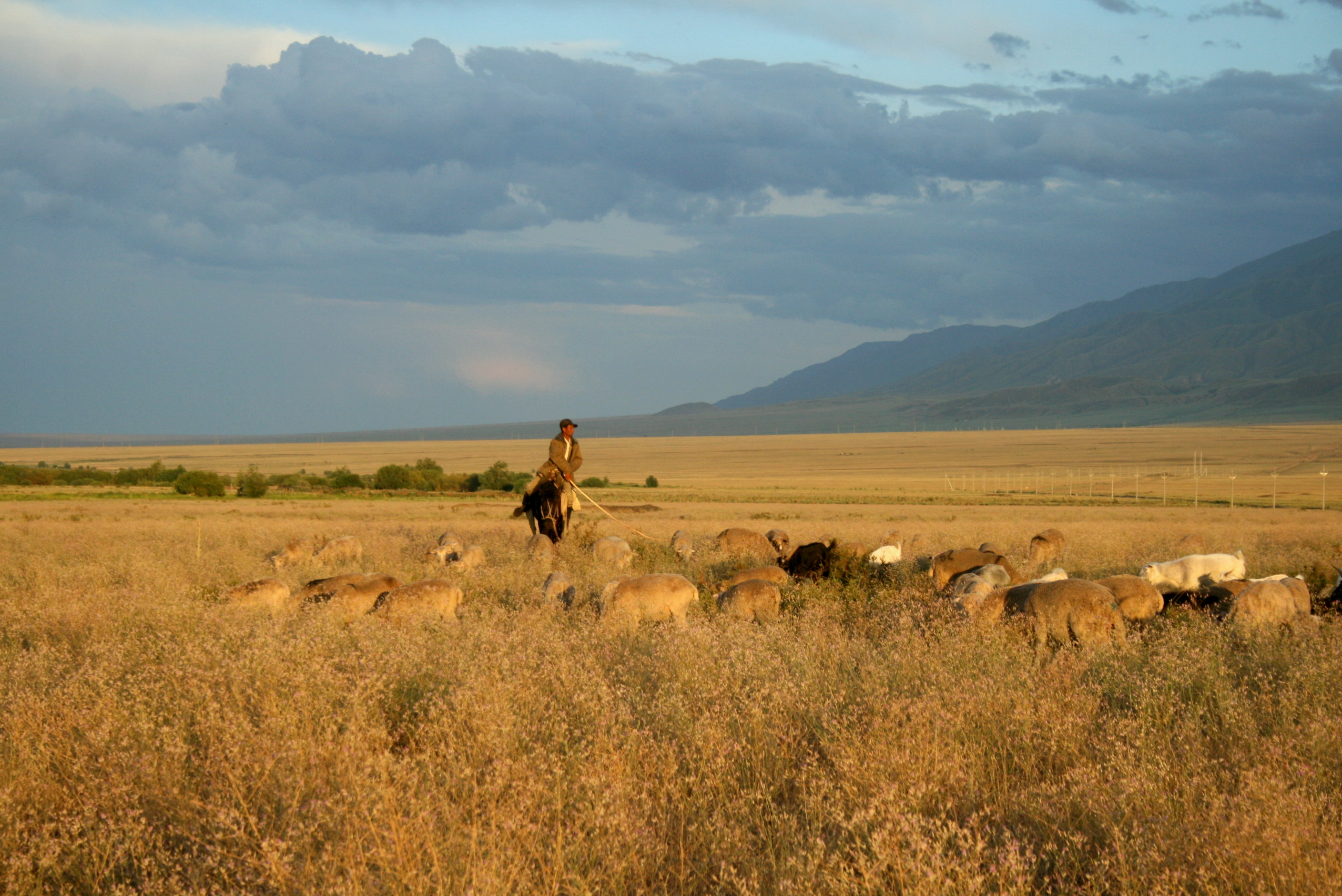 herdsman in the steppes of Kazakhstan